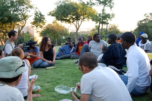 Students and refugees dialogue about the coming days copyright 2007 Ron Cantrell IonIsraelMedia